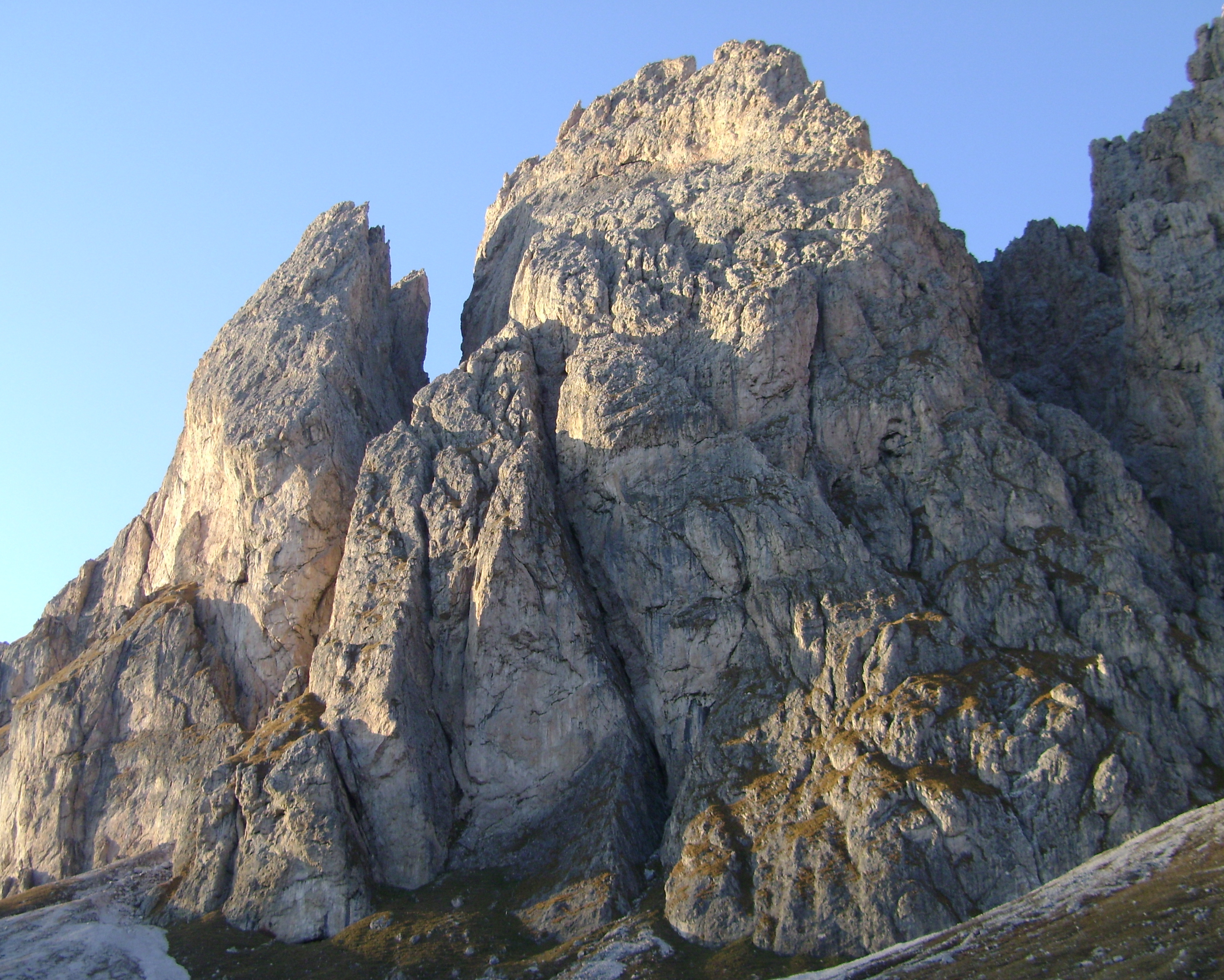 Kleine Fermeda, Große Fermeda, seen from South